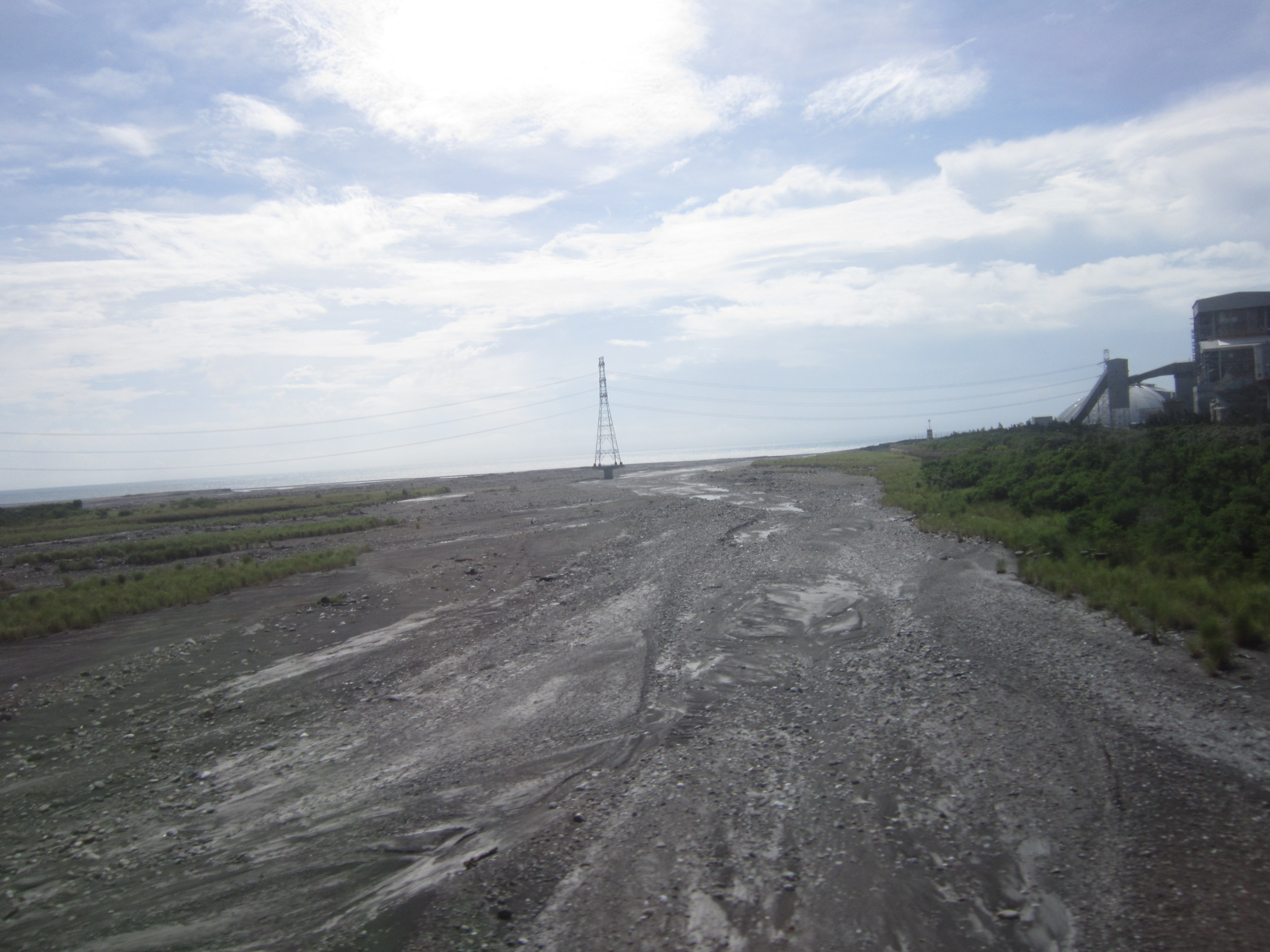 Hoping_river